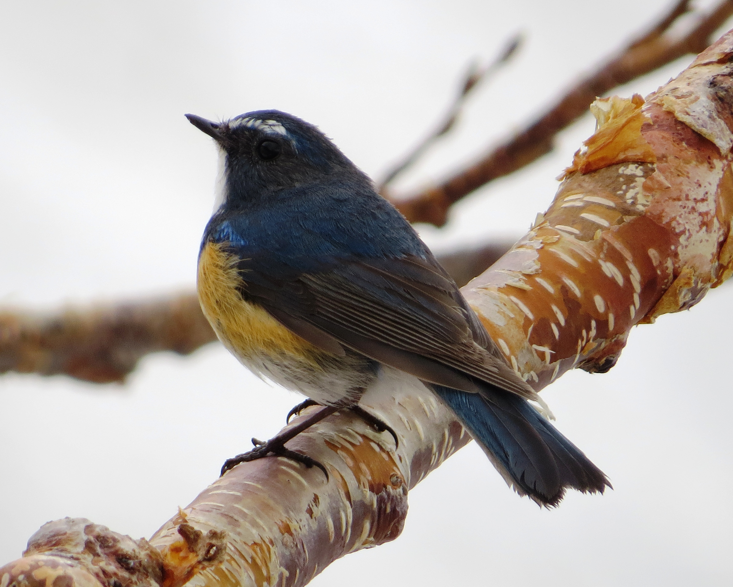 Tarsiger cyanurus (Red-flanked Bluetail), male on the branch, in Mount Haku, Gifu prefecture, Japan.